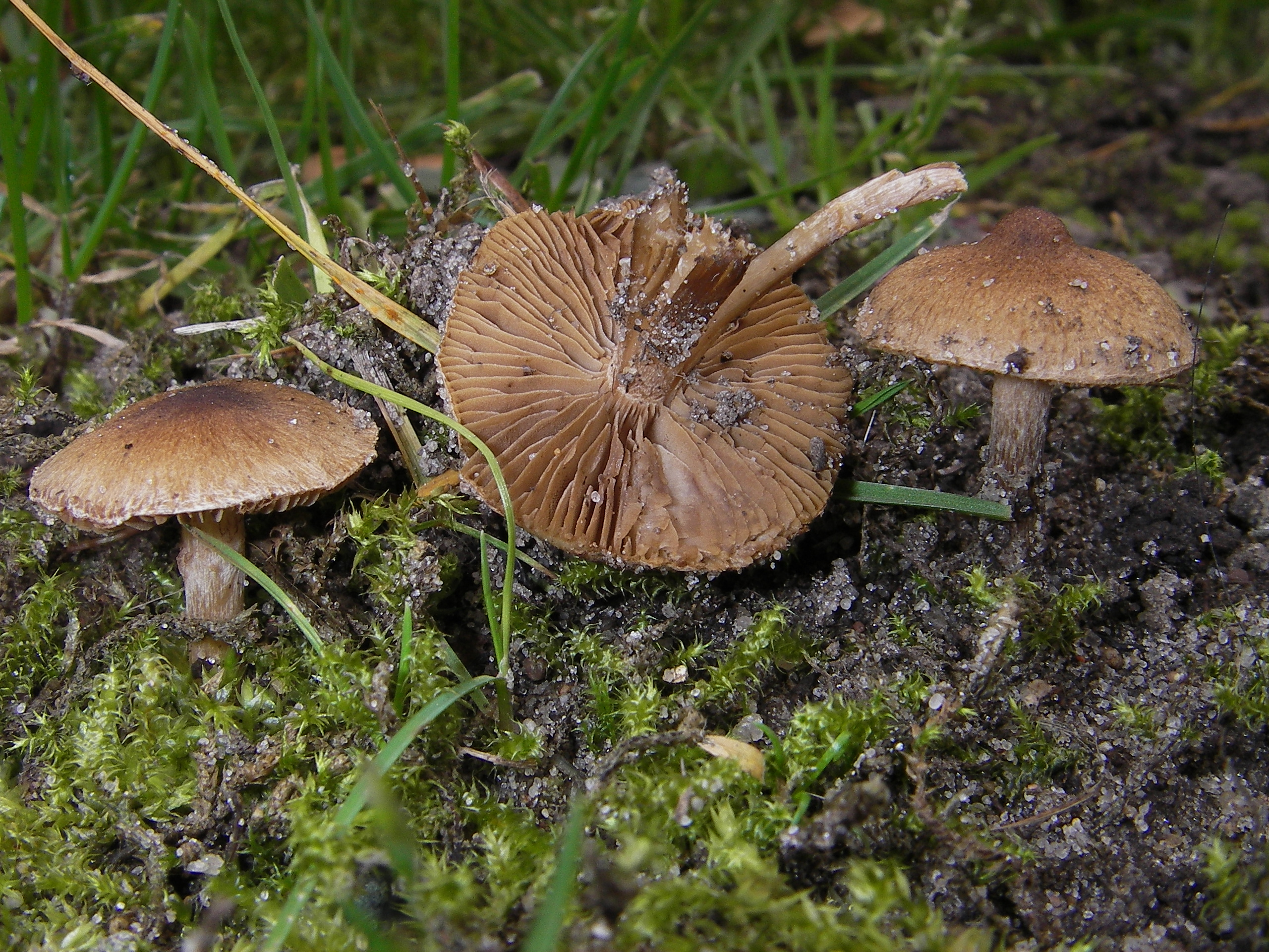 The making of this document was supported by the Community-Budget of Wikimedia Germany.